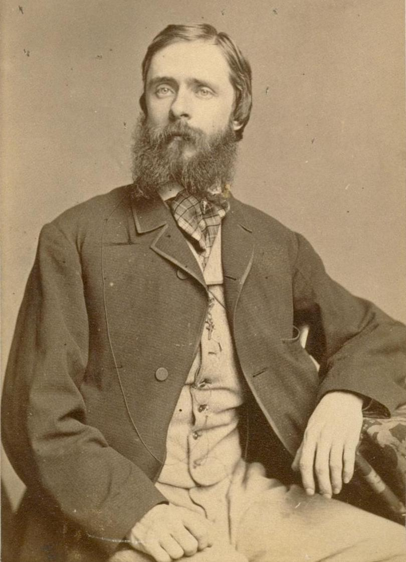 Fitz Hugh Ludlow (1836-1870), American writer